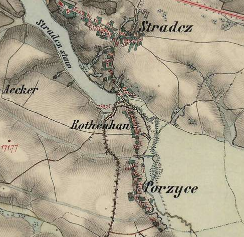 Rothenhan in Eastern Galicia on a map from around 1860